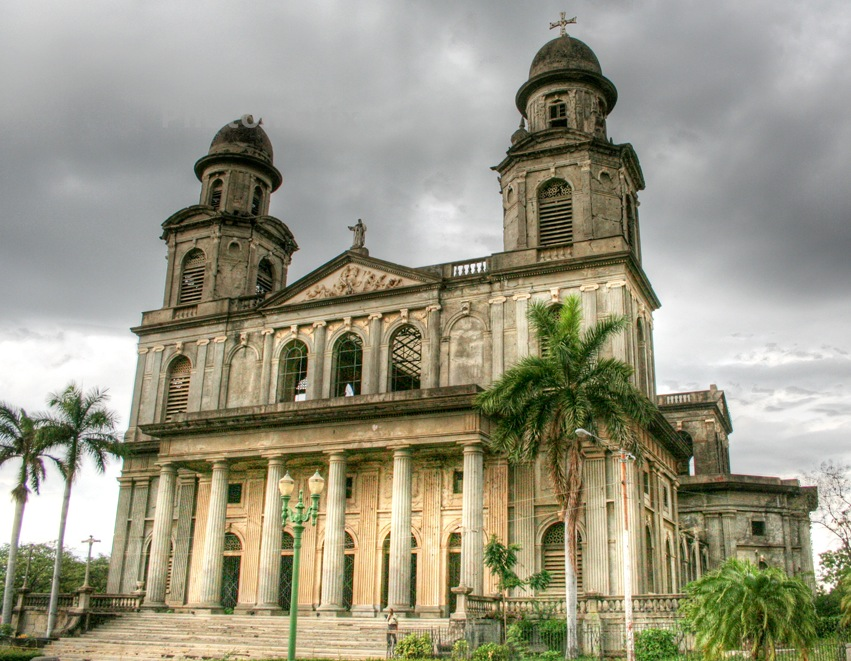 HDR image